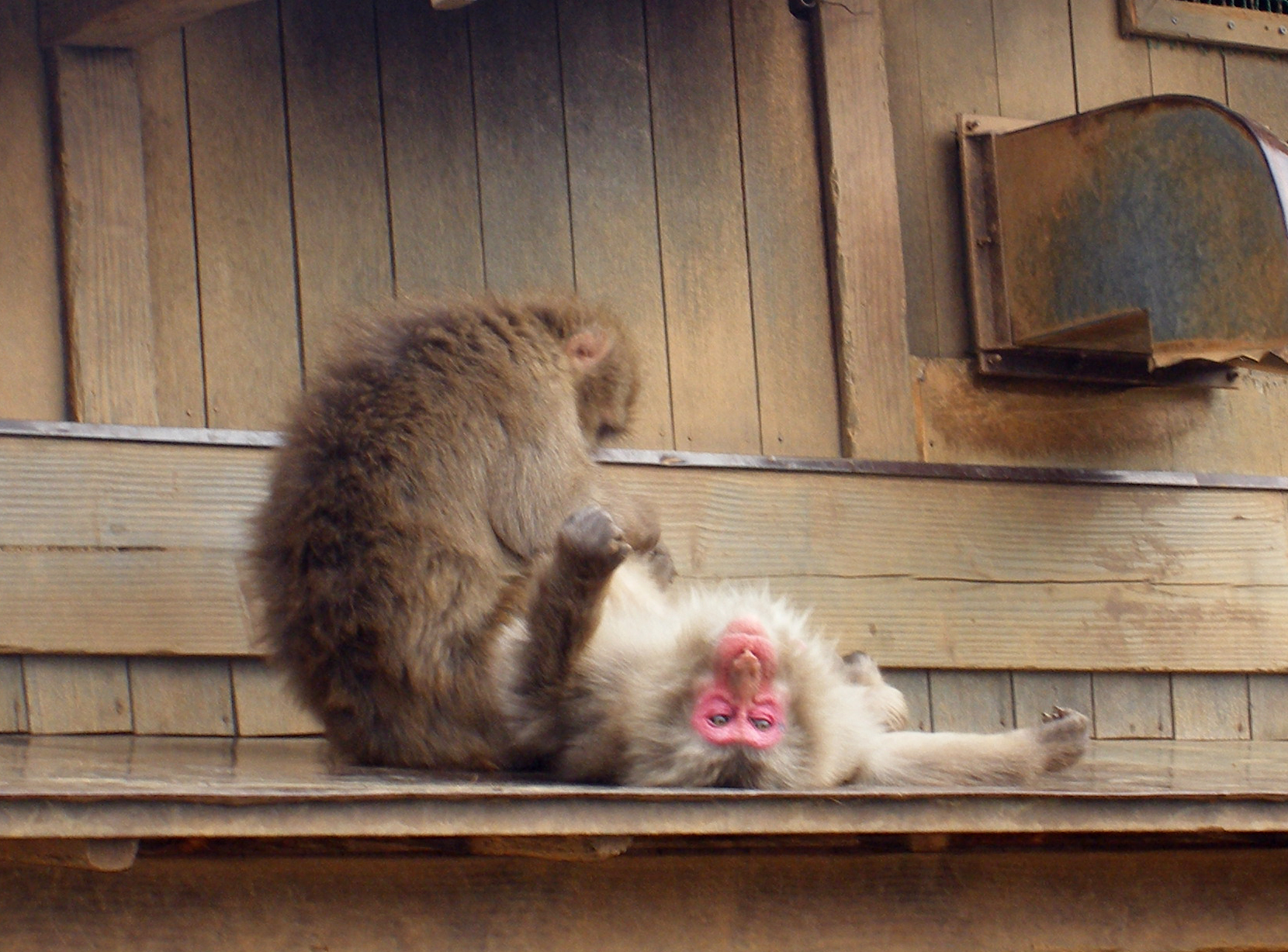 Photo of two Macata fuscata on the rooftop of the resting place at the Monkey Park in Arashiyama, Kyoto.